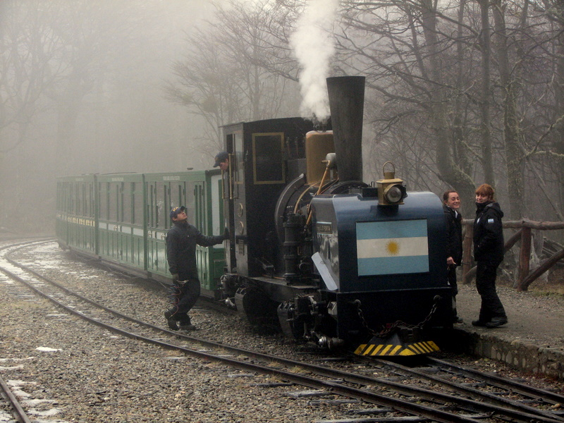 The end of the World Train with Garratt engine No. 2